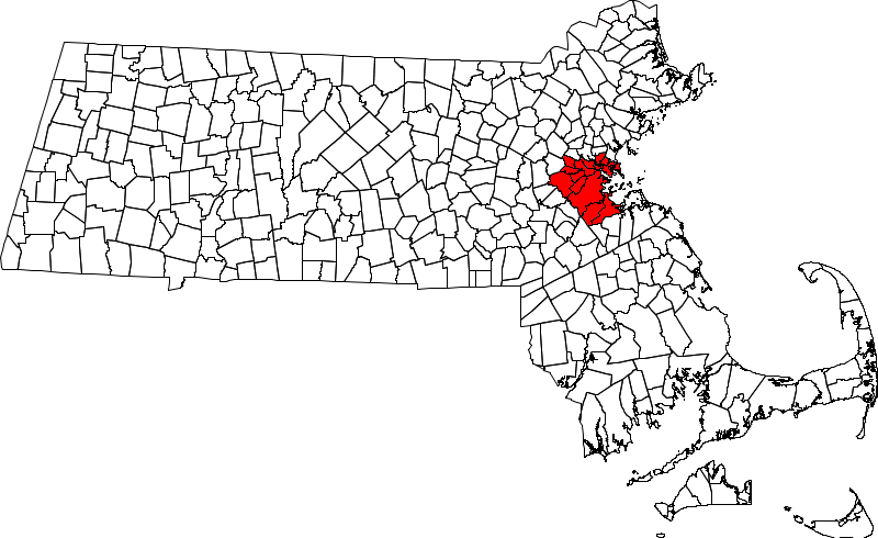 I created this file myself using an image from the massachusetts government website. It is completely in the public domain.